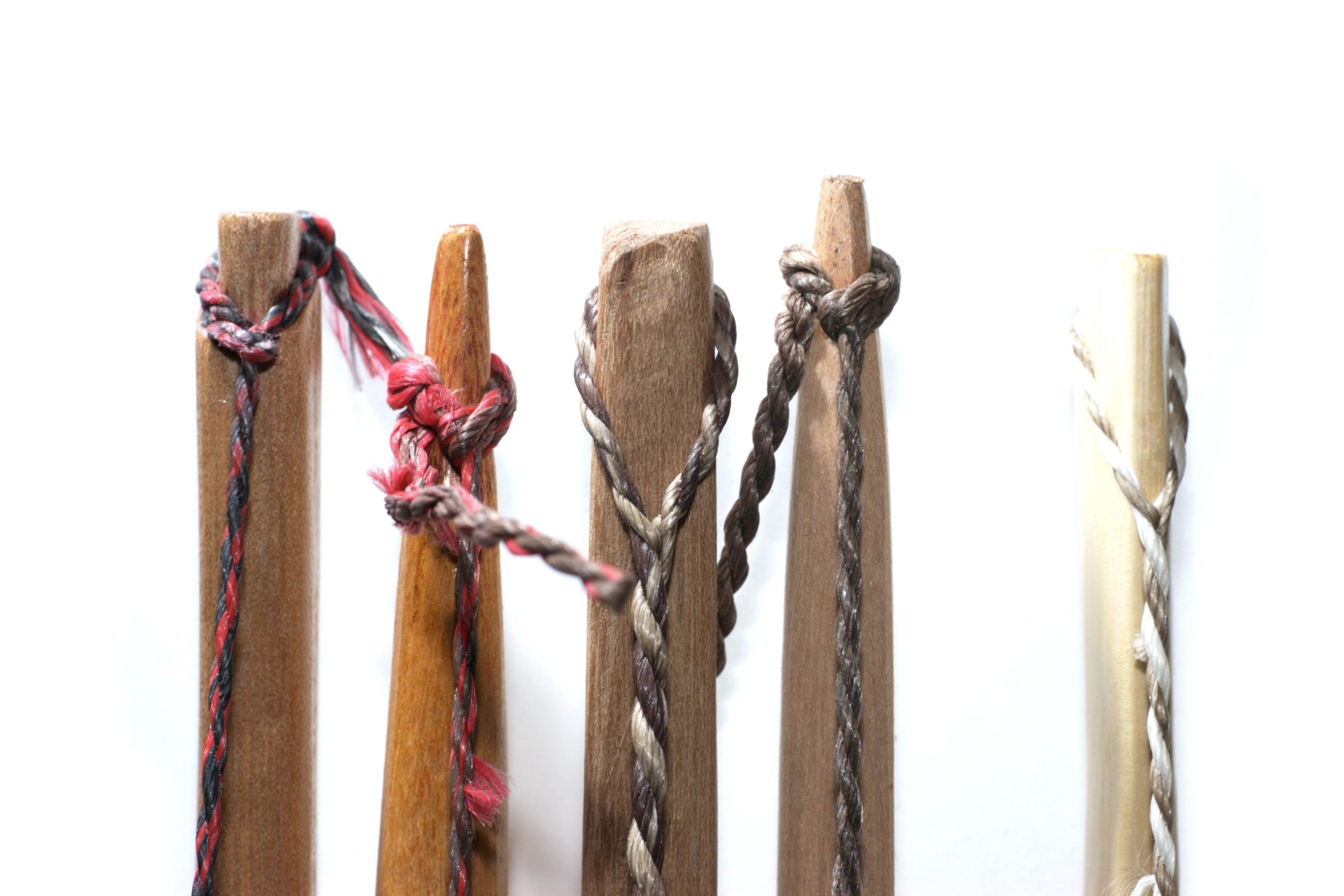 Bow tips